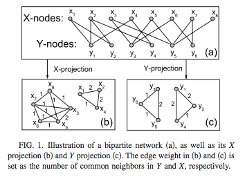 This graph shows the possible one-mode projections of a simple bipartite network.